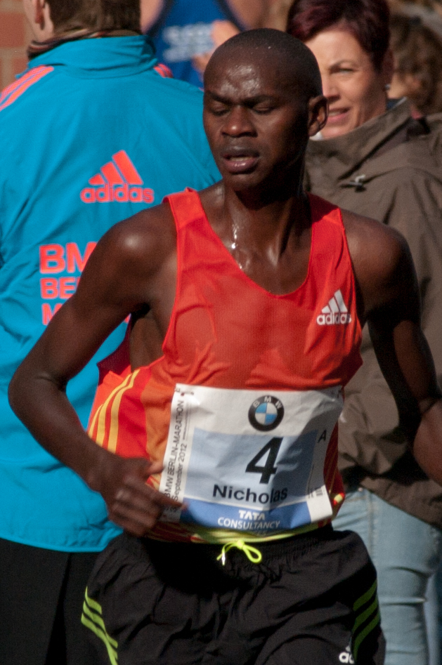 Kenyan runner Nicholas Kamakya at the Berlin Marathon 2012. Here on Bülowstraße, between Kilometers 36 and 37.